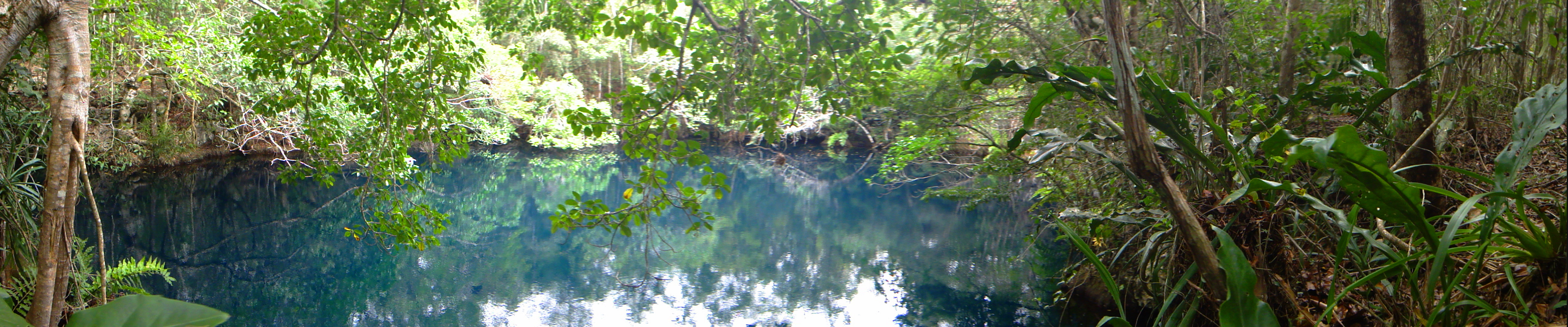 Angelia is one of those eerie Cenote that you just get out and say it was awesome. The sulfite Clouds at the bottom is really out of this world. Here are more photos from Angelita. The best dive shop to go with is akumal dive shop